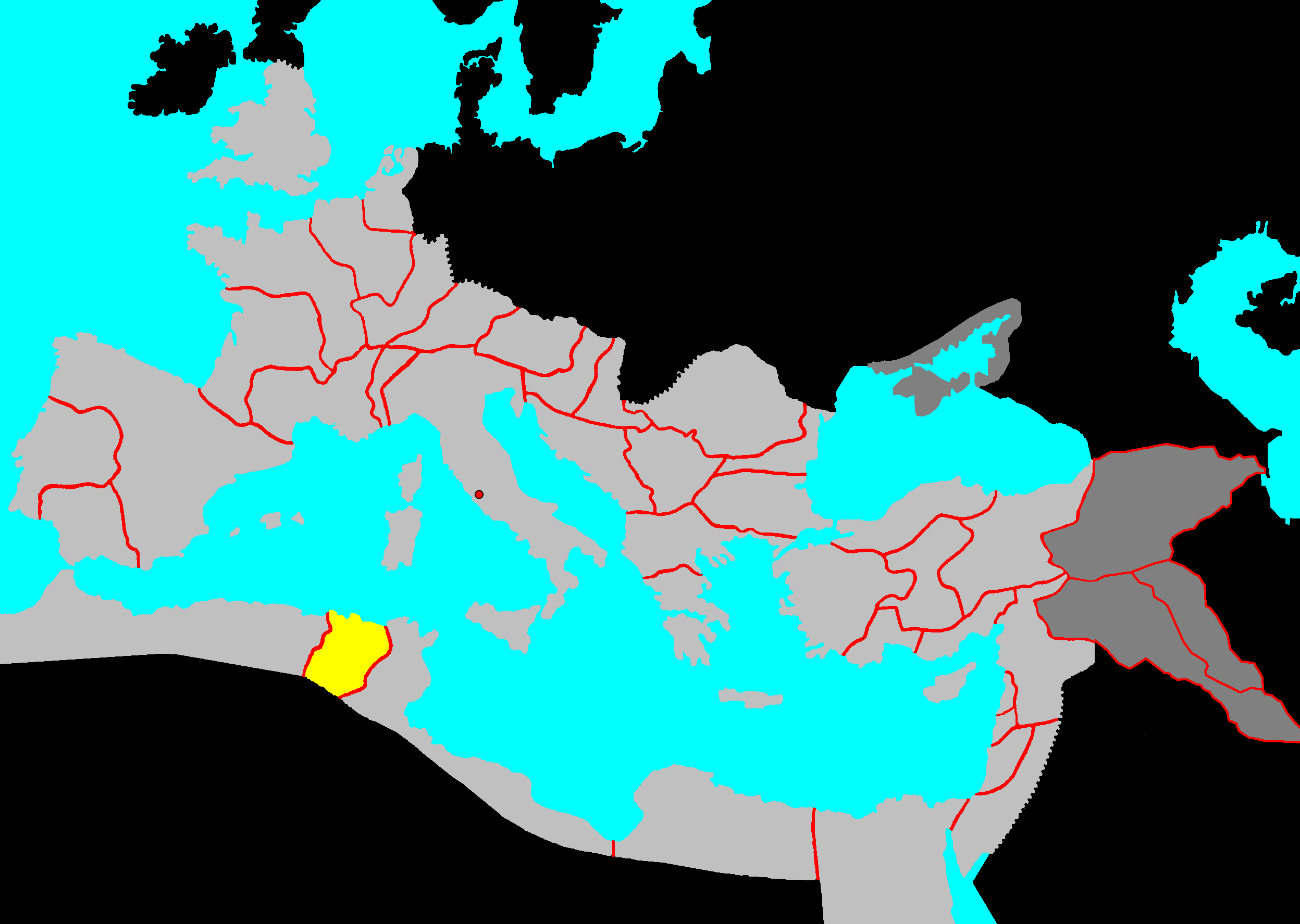 Description: provinces of the Roman Empire (Imperium Romanum) Source: own work Date: December 2005 Author: --Immanuel Giel 12:56, 13 December 2005 (UTC) Other versions: none